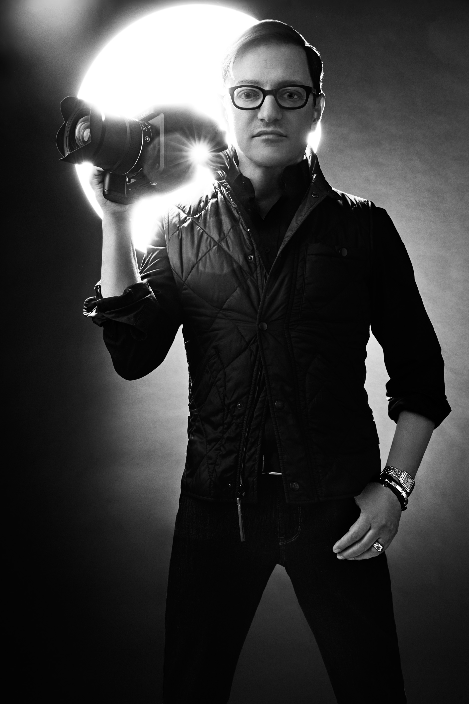 Portrait of Matthew Rolston by Davis Factor